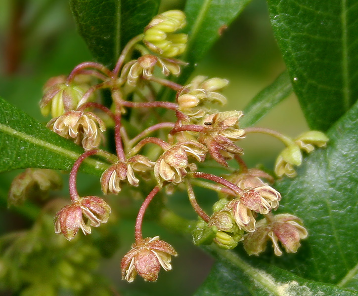 Dodonaea viscosa - Sticky hop bush, Hopseed, Hopbush, Akeake, Aalii, • Hindi: Sanatta, विलायती मेहॆंदी Vilayti-mehdi, Sinatha • Marathi: Lutchmi • Tamil: Virali • Malayalam: Vrali, Unnataruvi • Telugu: Bandaru, Pullena • Kannada: Bandaru, Bandarike • Oriya: Mohra • Sanskrit: aliar, rasna, sanatta- in Keesara, Rangareddy district, Andhra Pradesh, India.